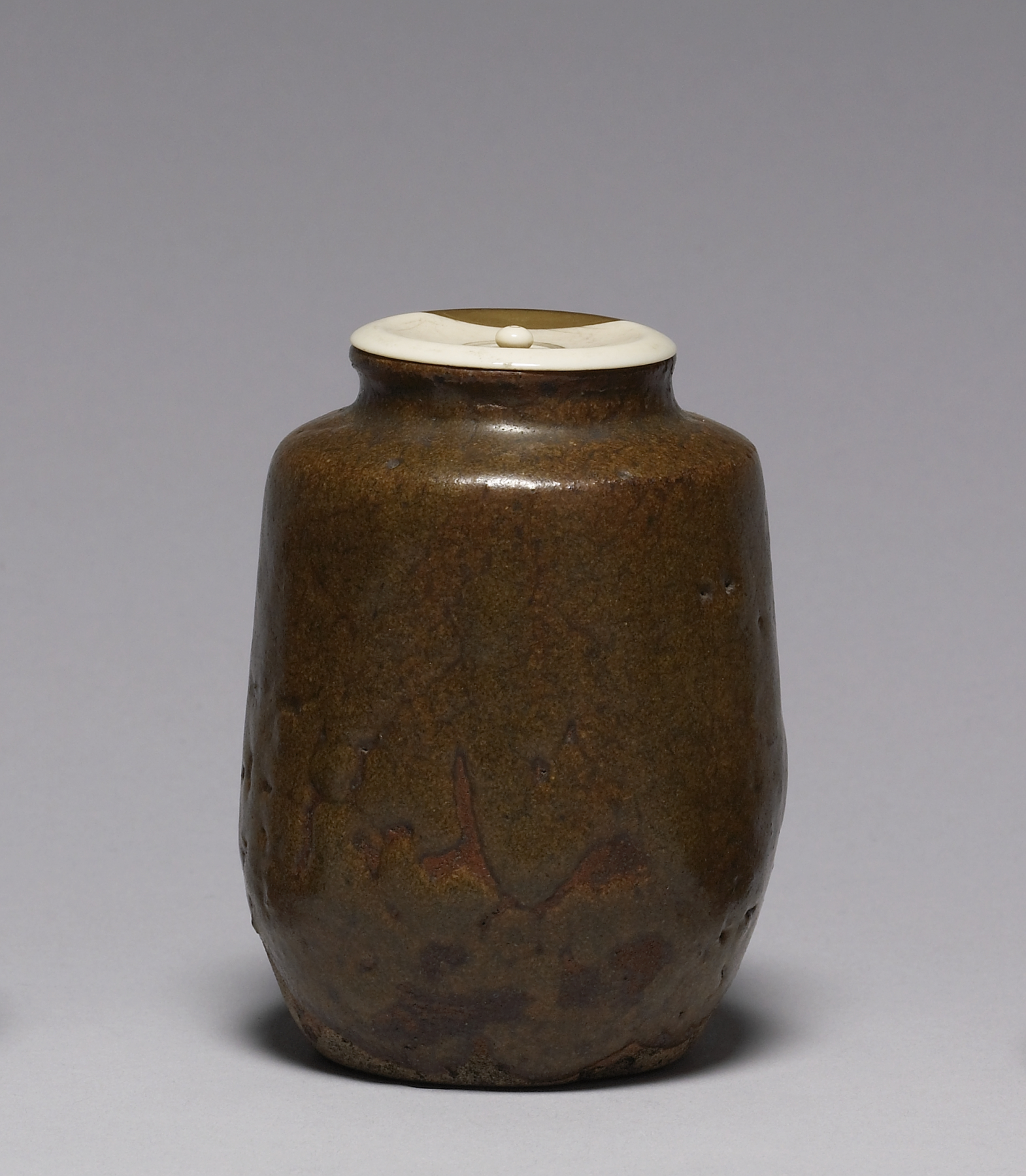 Mino or Seto ware. The Seto and Mino regions became centers for the production of unglazed utilitarian wares. Potters drew inspiration from Chinese ceramics, including green celadon porcelains and dark brown tenmoku wares. The earliest Seto ceramics may have evolved from failed attempts to reproduce Chinese celadons. Later Seto wares were given a brown iron glaze and fired at high temperatures to create glossy surfaces. Vessels from the nearby Mino kilns were low-fired and, therefore, present a less polished appearance than Seto wares.